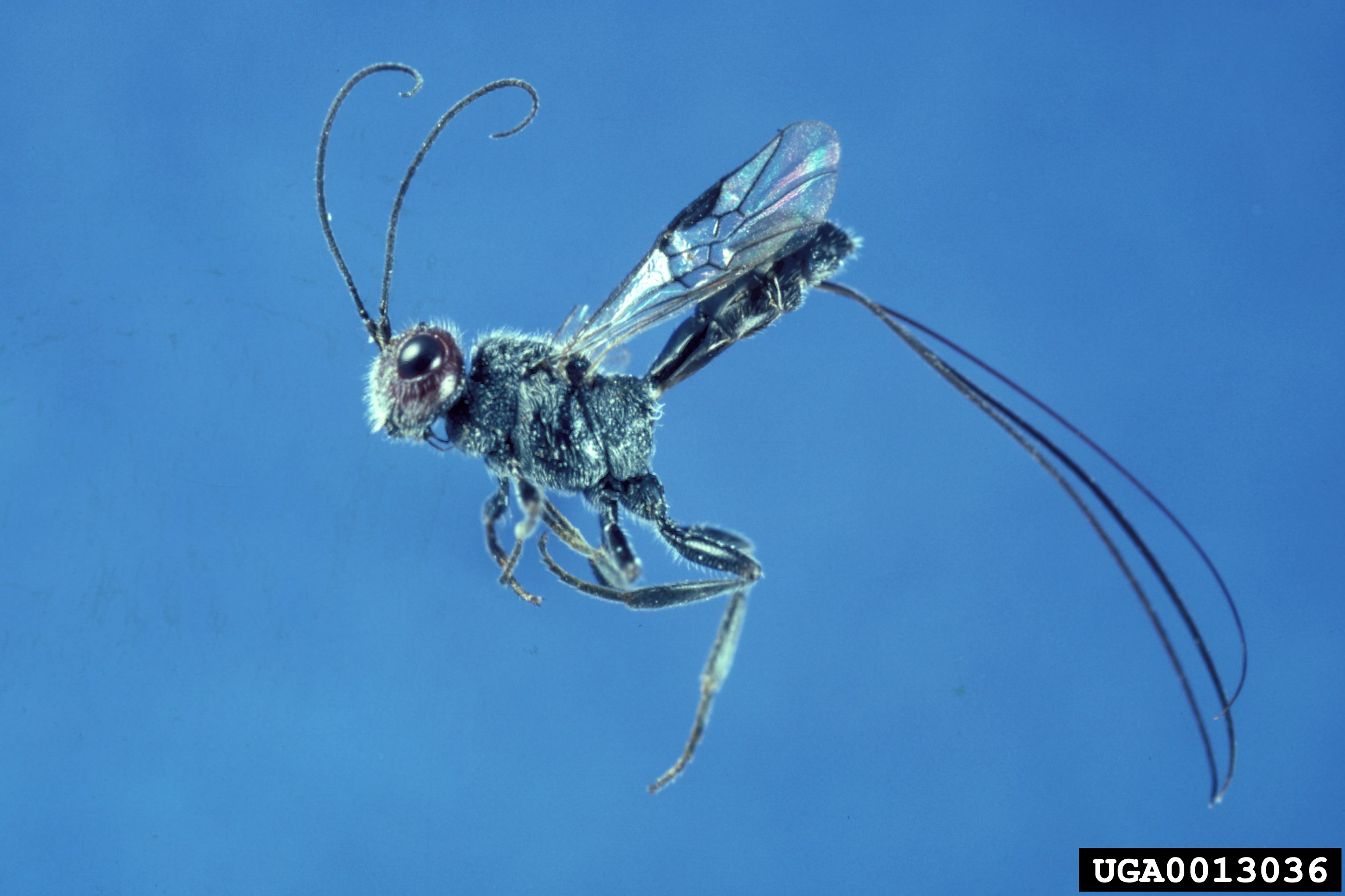 Insect species Cenocoelius nigrisoma